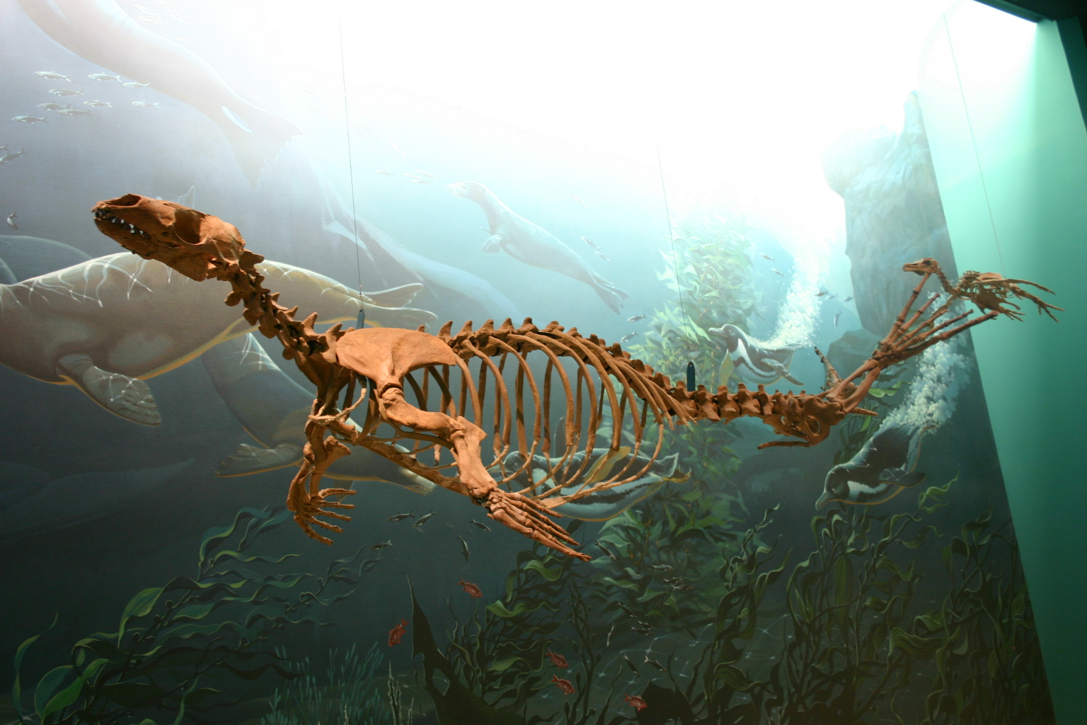 Acrophoca longirostris exhibited in Smithsonian National Museum of Natural History: Hall of Fossils